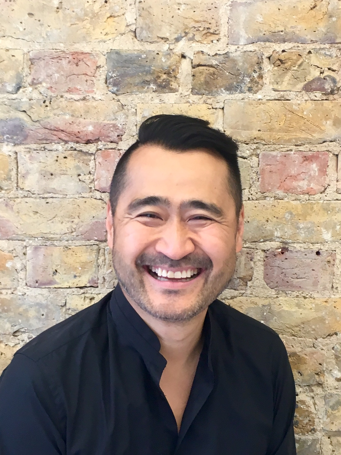 Jorn Lyseggen